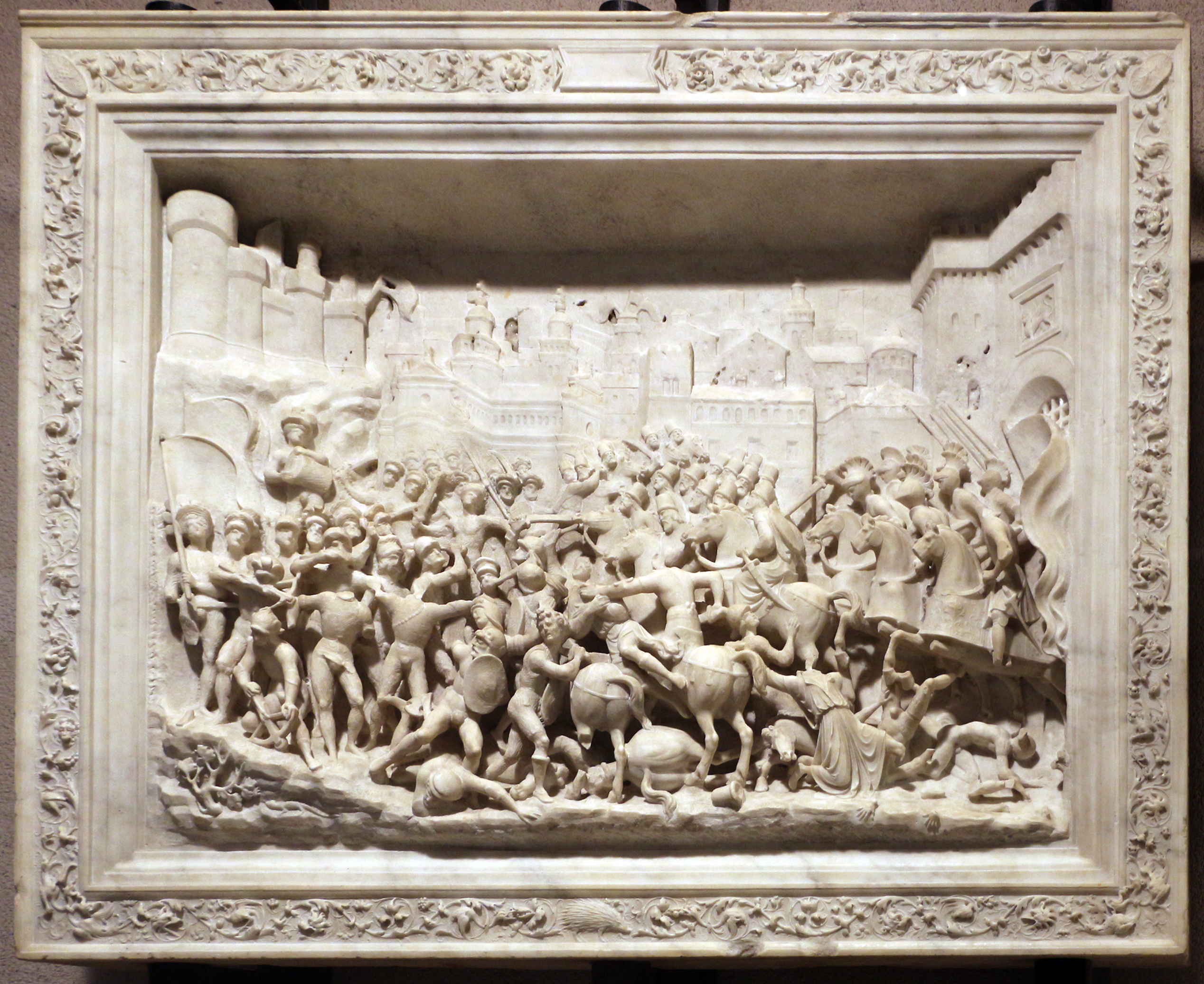 Museo d'arte antica (Milan) - 16th-century sculptures